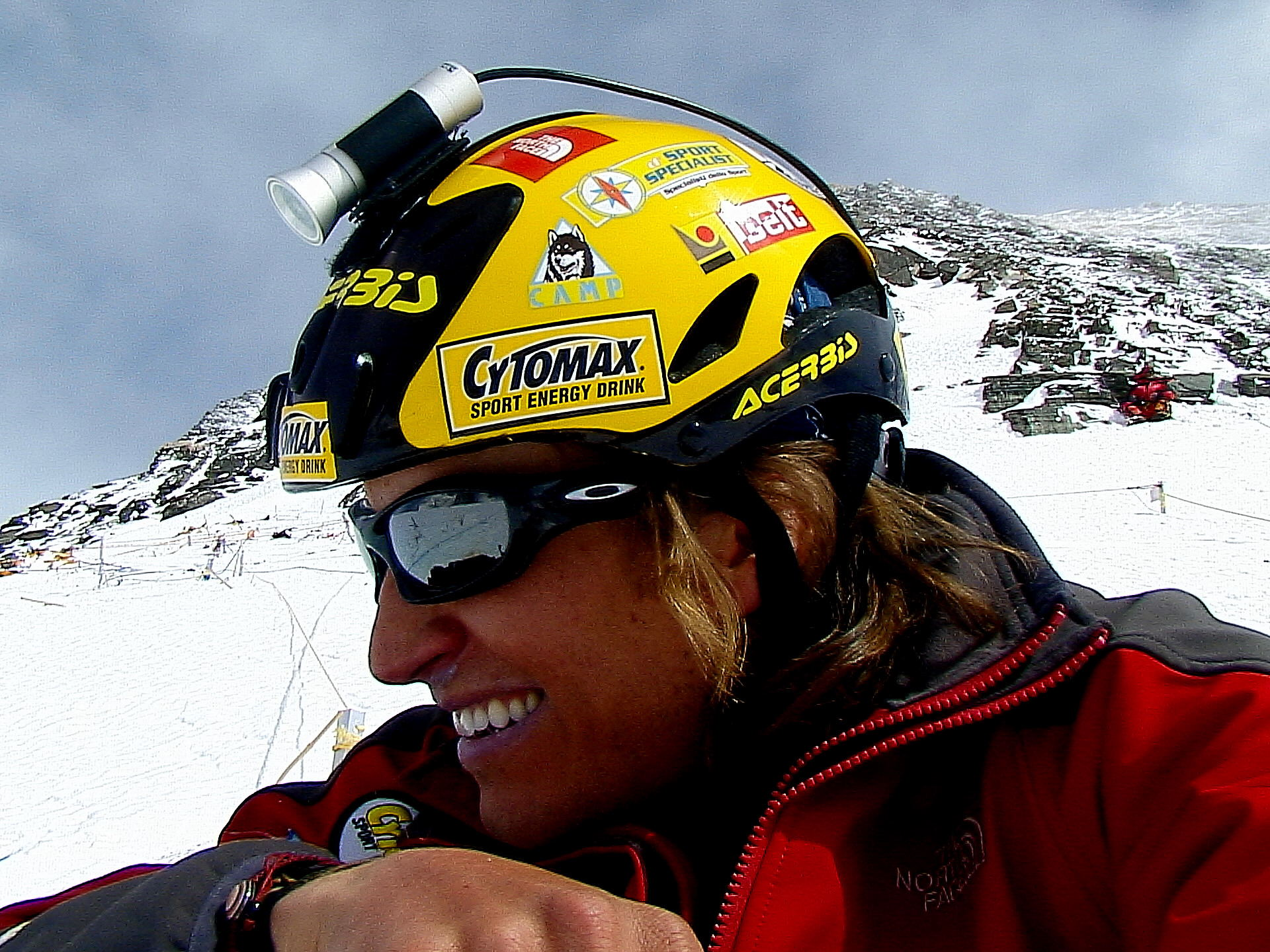 Joby Ogwyn on North Face of Everest